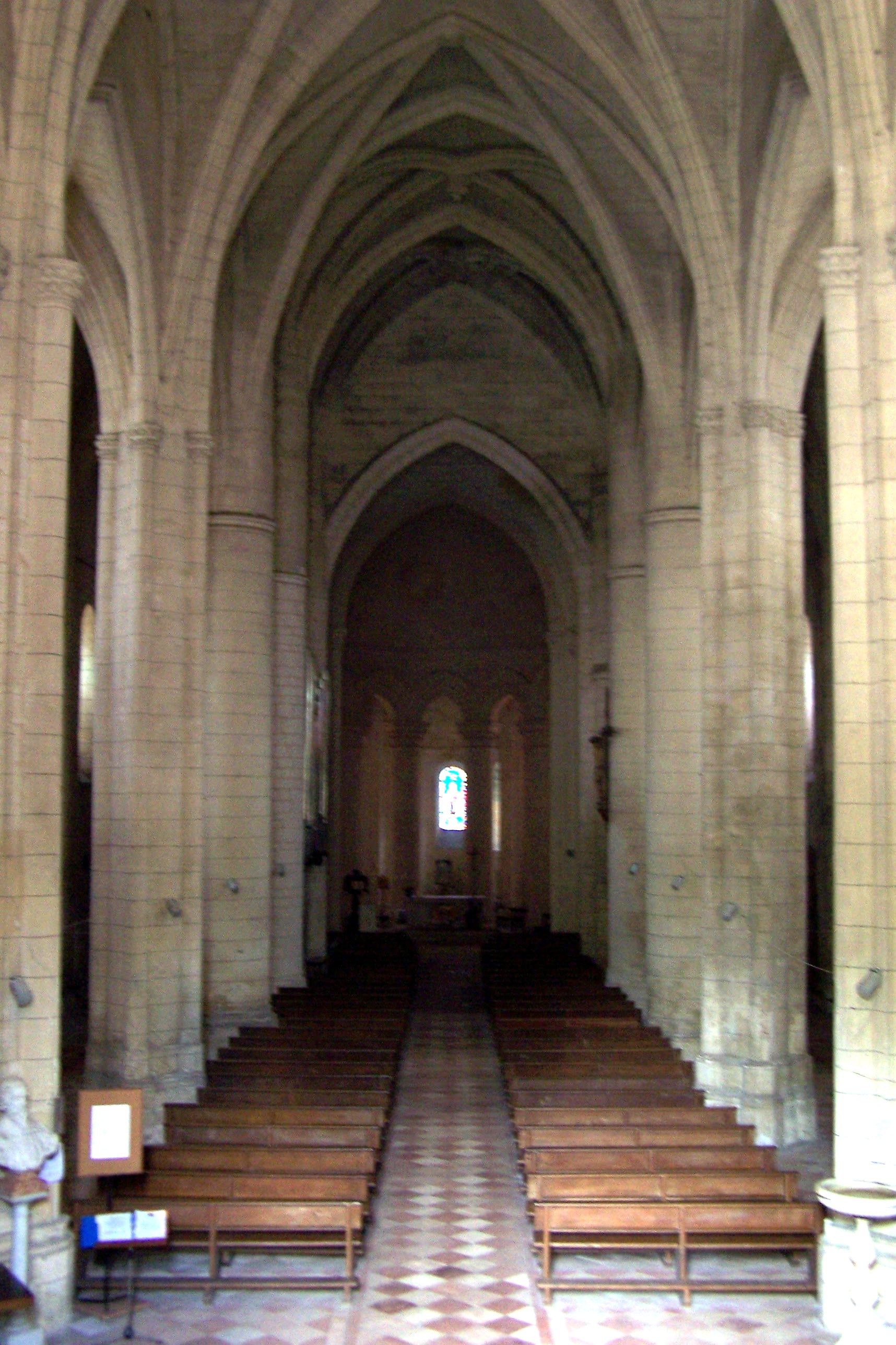 Church Notre-Dame of Guîtres (Gironde, France)